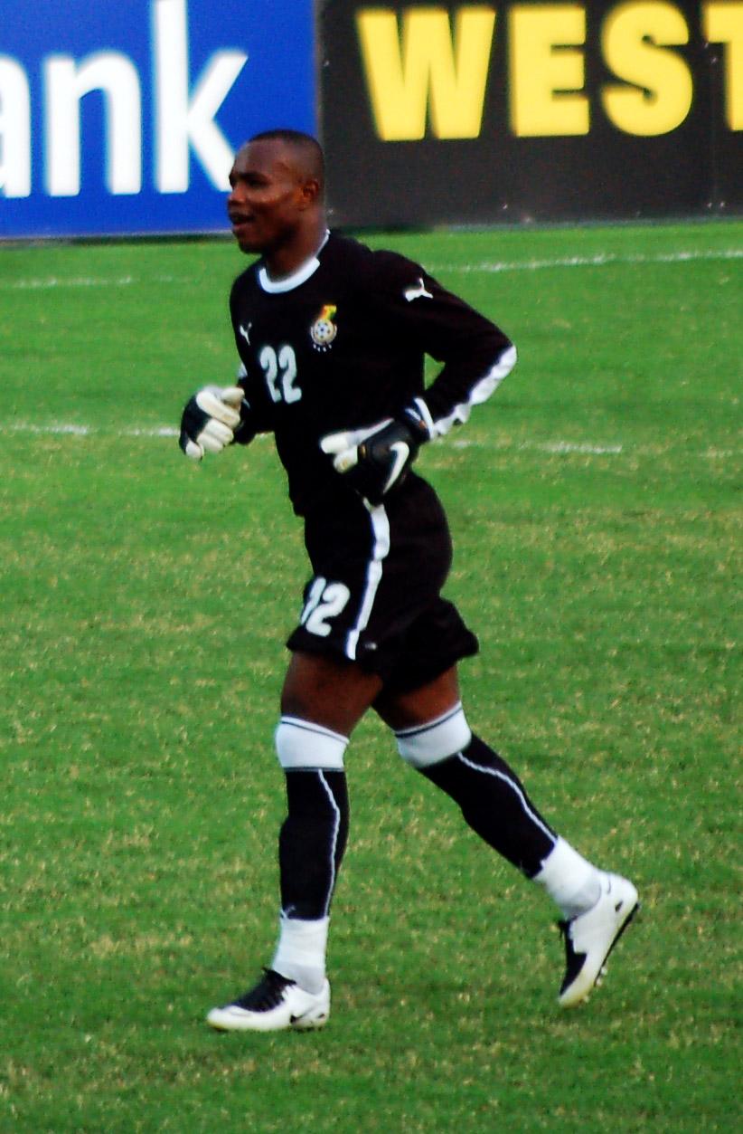 Richard Kingston warms up, Ghana v Nigeria, African Cup of Nations 2008